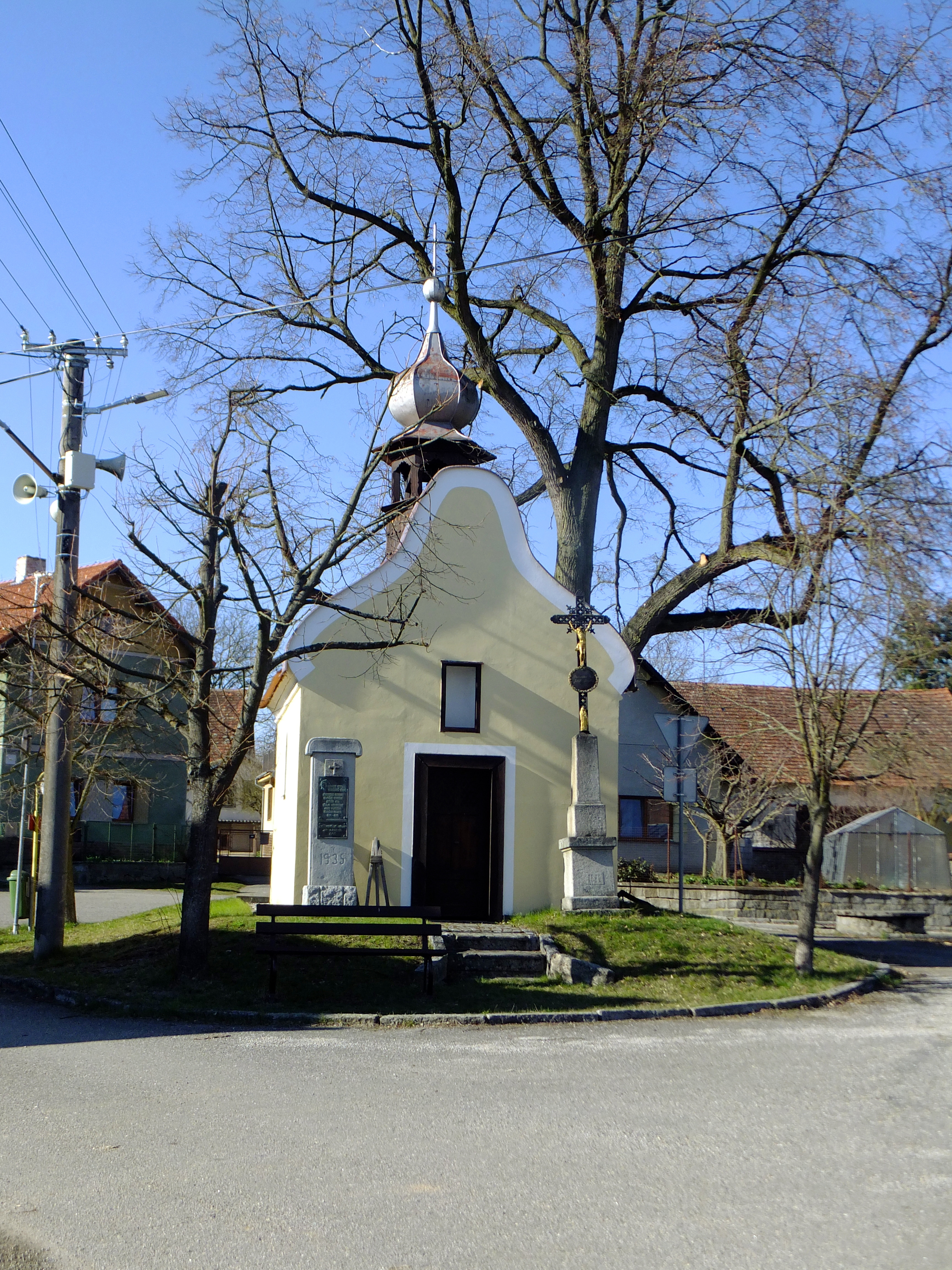 The chapel of Virgin Mary on the squara in Zahorčice